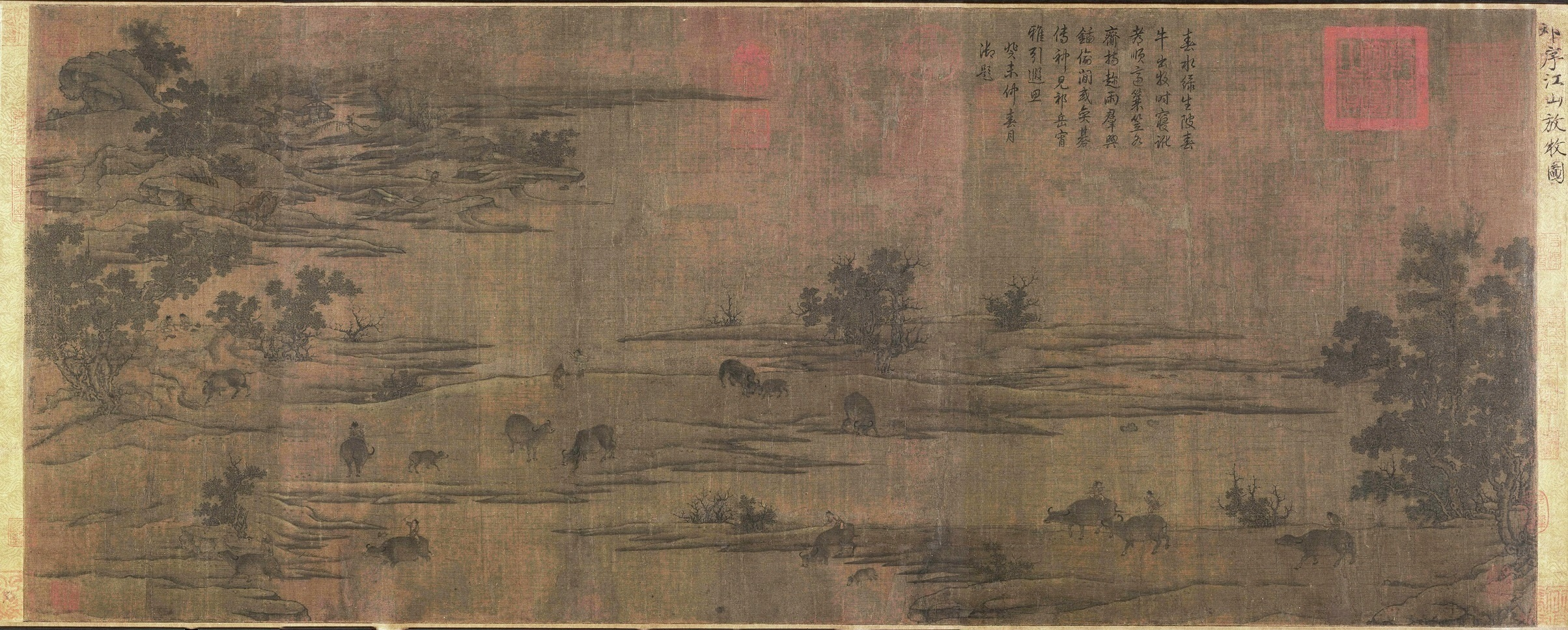 Qi Xu, Jiangshan Mu put tu, 47.3cm х115.6cm. Palace Museum, Beijing.